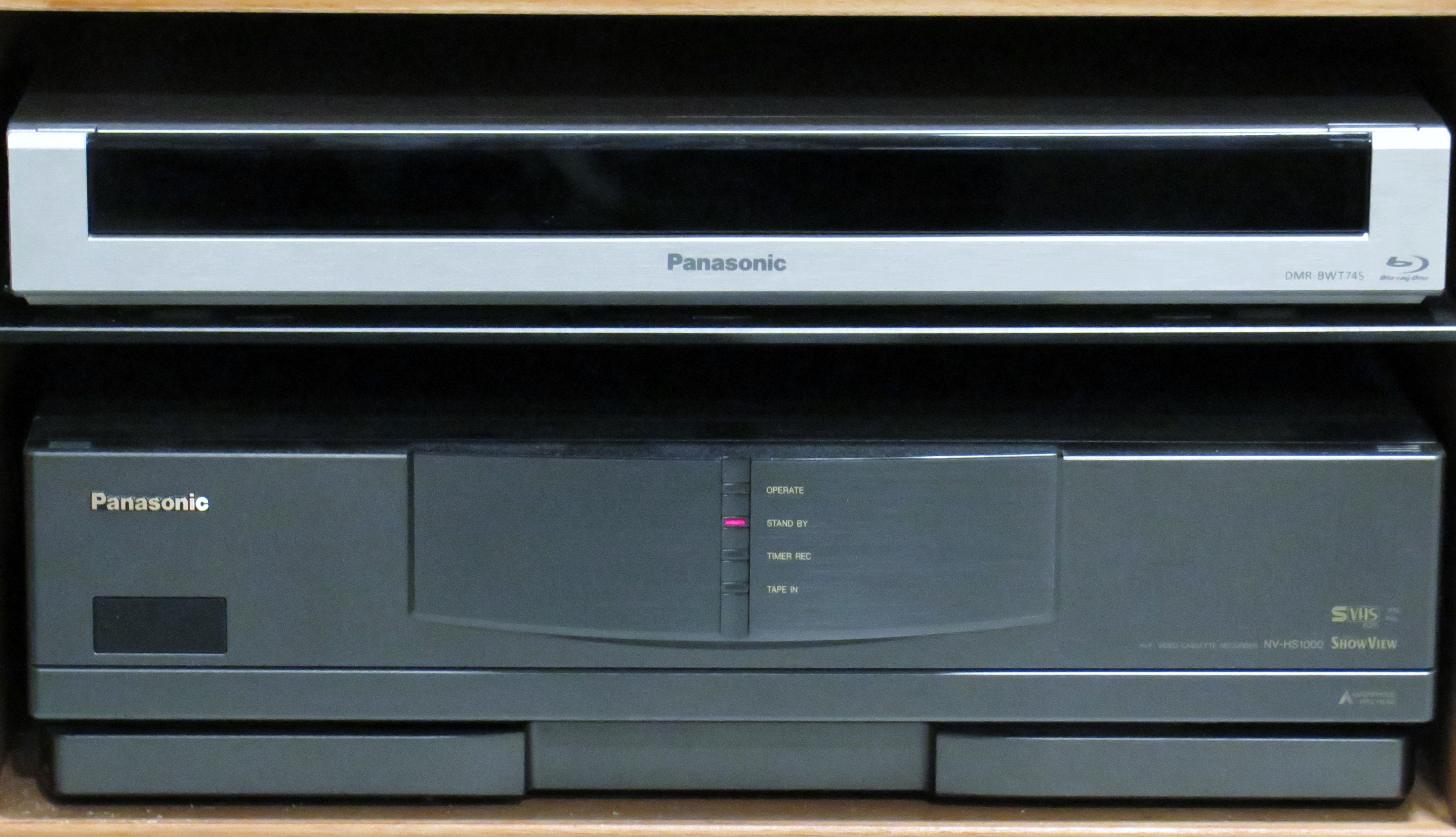 Two different video recorders. Top: PANASONIC DMR-BWT745 records video programs to internal hard disk (after recording it can copy video to DVD, Blu-ray disk or external USB storage device). Bottom: PANASONIC NV-HS1000EGC records video to VHS tape.